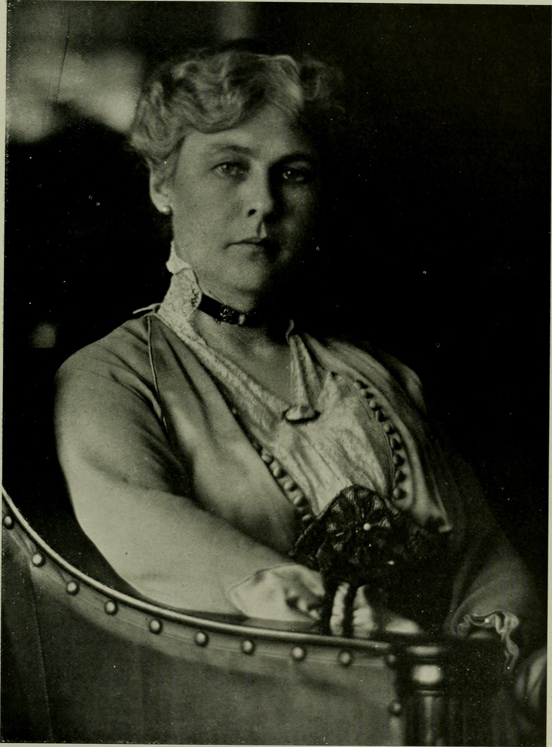 Mrs. Carl (Delia Akeley), 1915. Photograph by Dewitt C. Ward Title: The American Museum journal Year: [1918 c1900-[1918 (c190s) Authors: American Museum of Natural History Subjects: Natural history Publisher: New York : American Museum of Natural History Text Appearing Before Image: ' Text Appearing After Image: Photo by DeWitt C. Ward MRS. CARL E. AKELEY, NEW YORK CITY, 1915 337